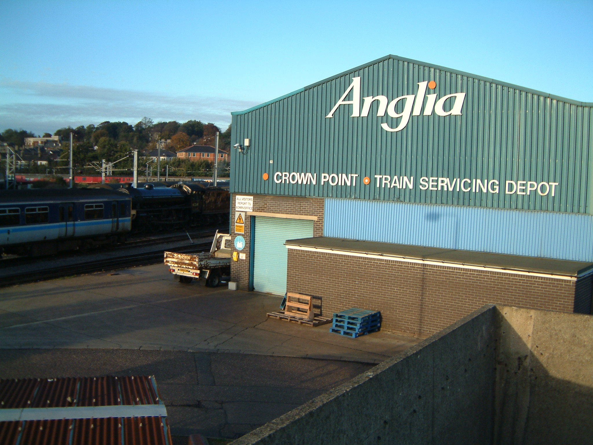 Norwich Crown Point railway maintenance depot. Photograph by AmosWolfe 10th November 2001 British Rail Class 150 and steam locomotive 61264 can be seen.